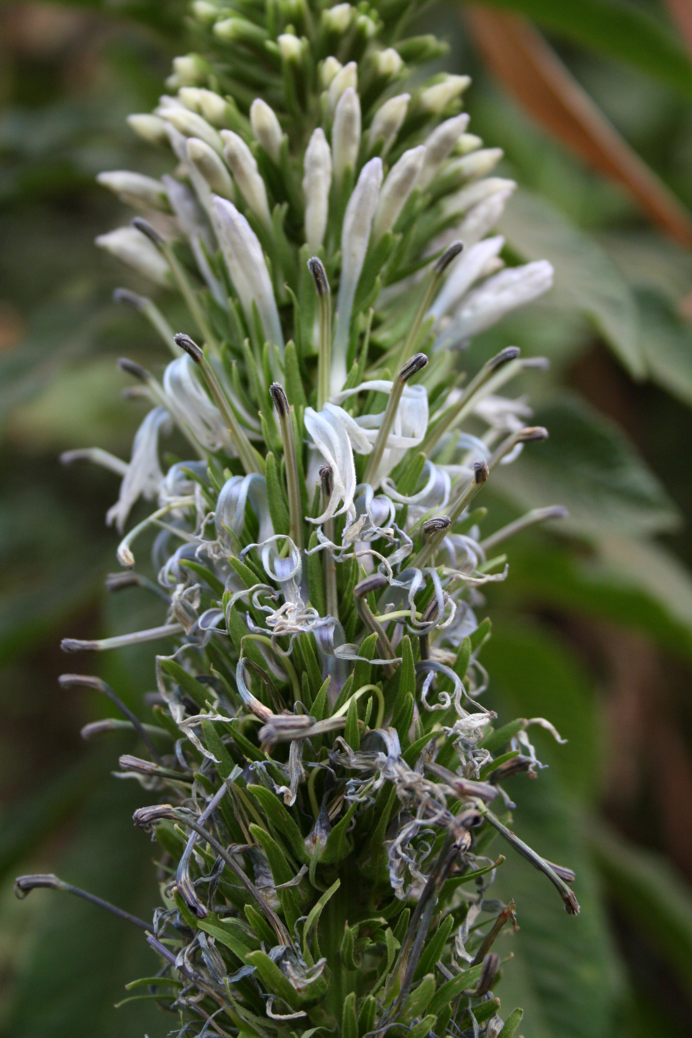 Inflorescence of Lobelia columnaris, Laikom, NW Province, Cameroon